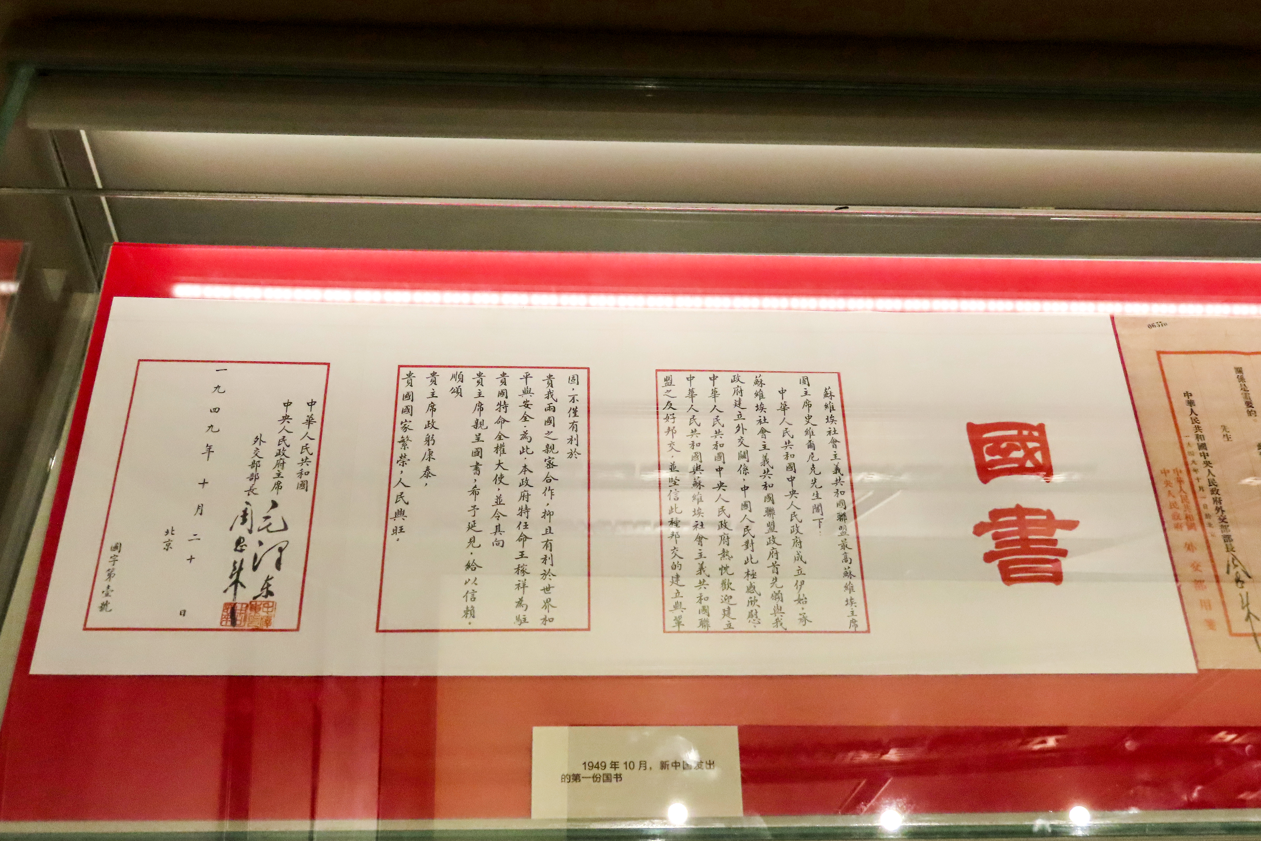 The first letter of credence from PRC.